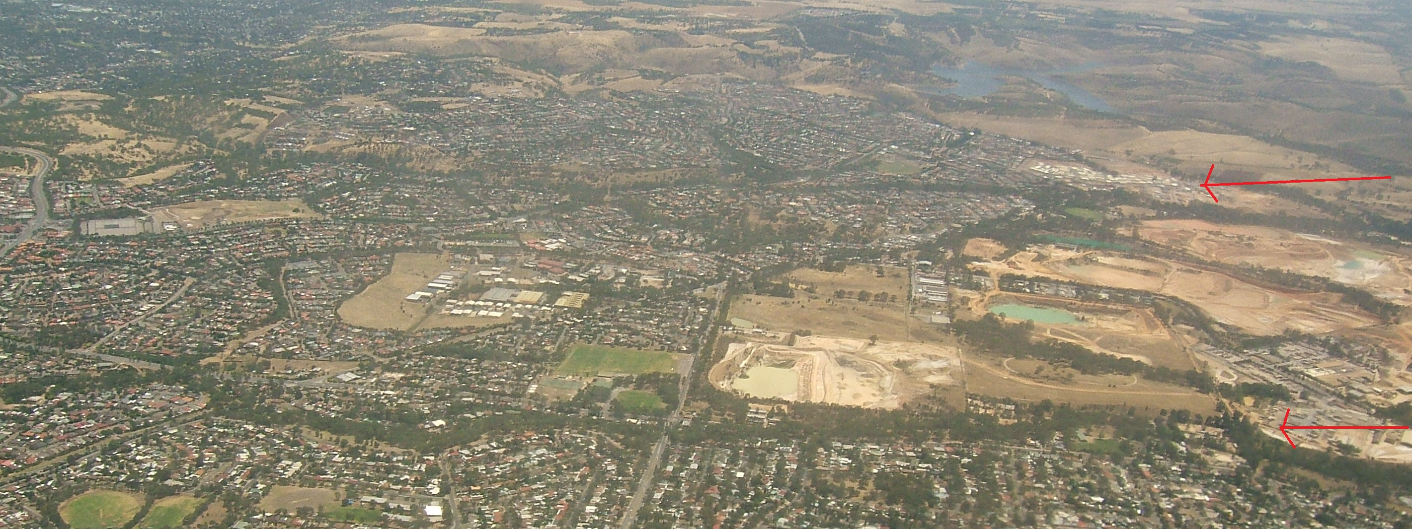 Golden Grove and Greenwith aerial view, Adelaide